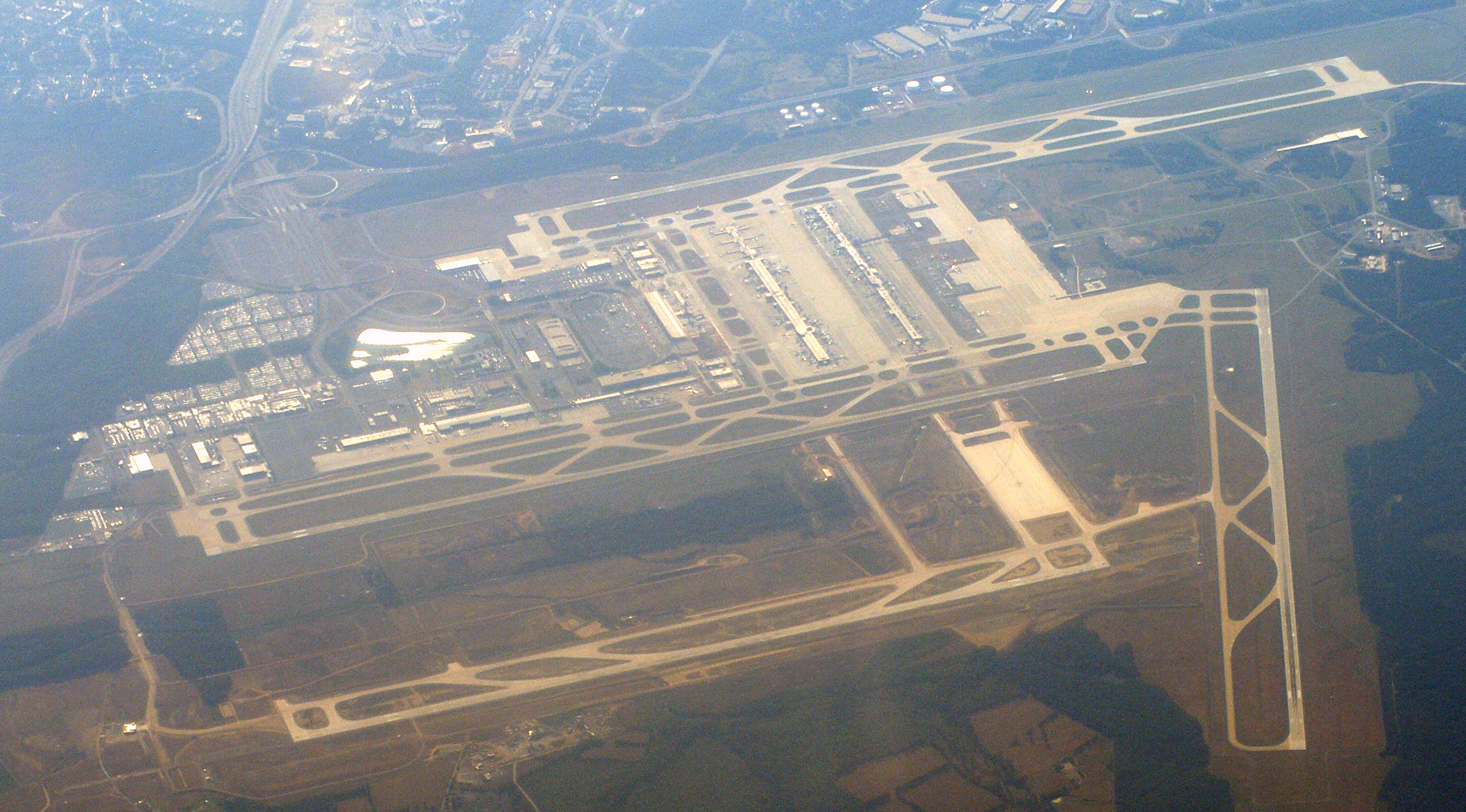 This image (View of IAD from airplane_a.jpg) is a version of the original image (View of IAD from airplane.jpg) that was altered using Photoshop in an attempt to lessen the haze effect on the original.